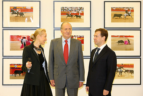 MANEZH, MOSCOW. At the photo exhibition “Spain as seen by Russian photographers”. With King of Spain Juan Carlos I and Director of the Moscow House of Photography Olga Sviblova.